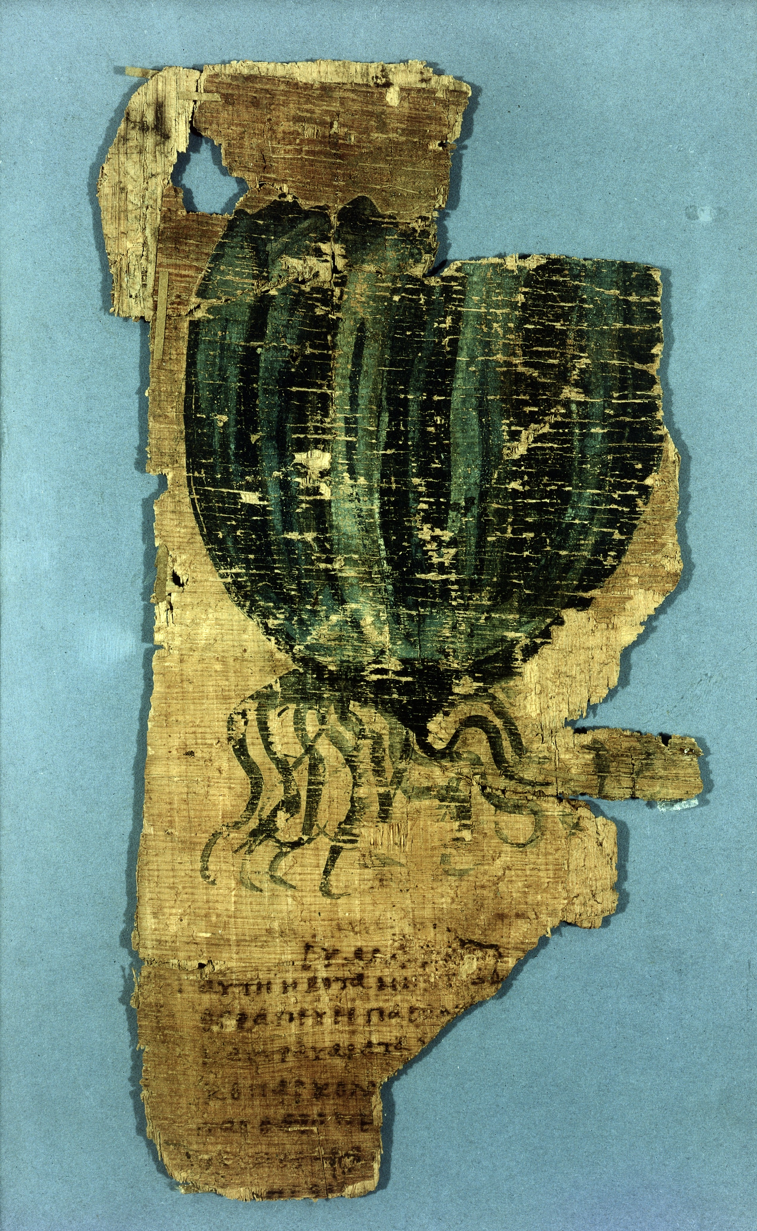 Johnson Papyrus, fragment of an illustrated herbal manuscript showing a plant possibly symphytum officinale, comfrey. Archives & Manuscripts Keywords: Herb; Herbal remedies; Plant; Materia Medica; Plants